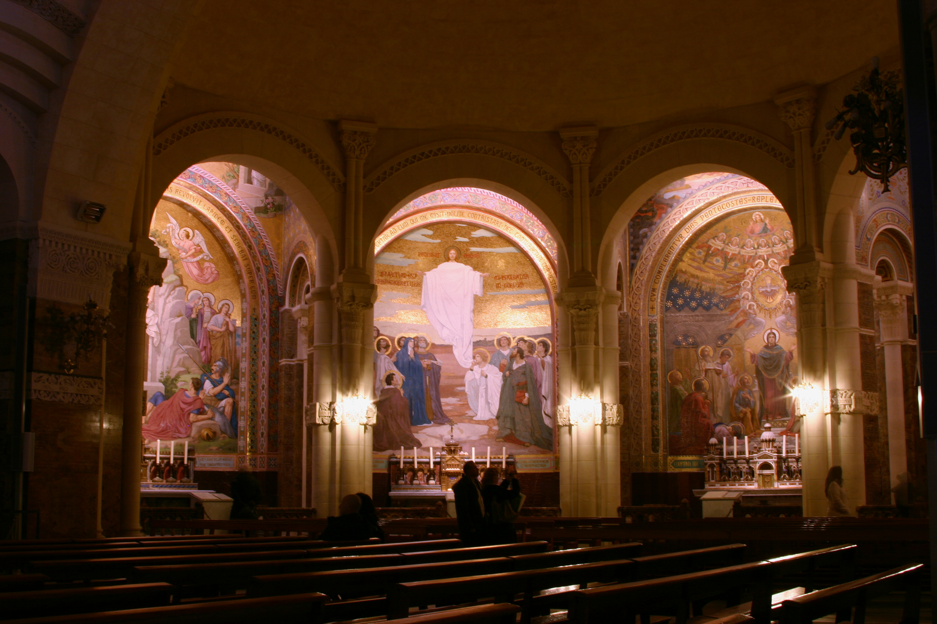 Rosary Basilica - Lourdes